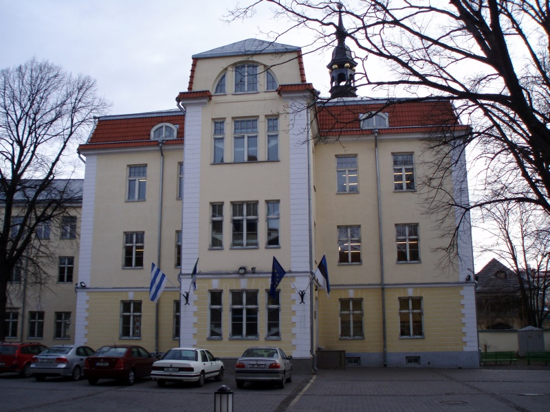 The main building of the Gustav Adolf Grammar School.